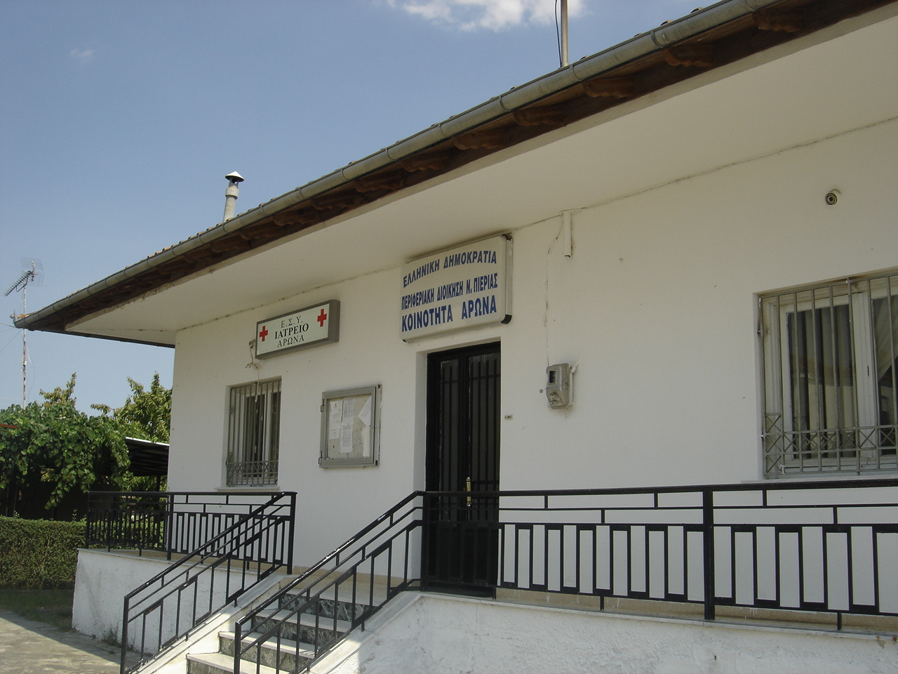 Medical center in Aronas and municipality.